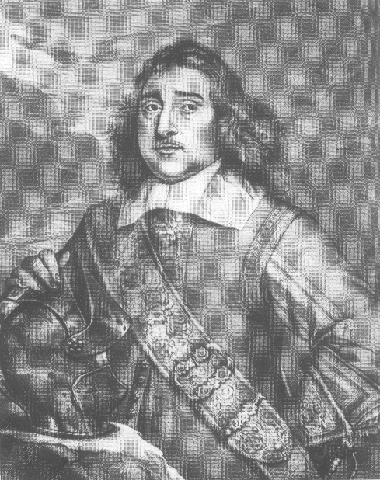 General George Monck